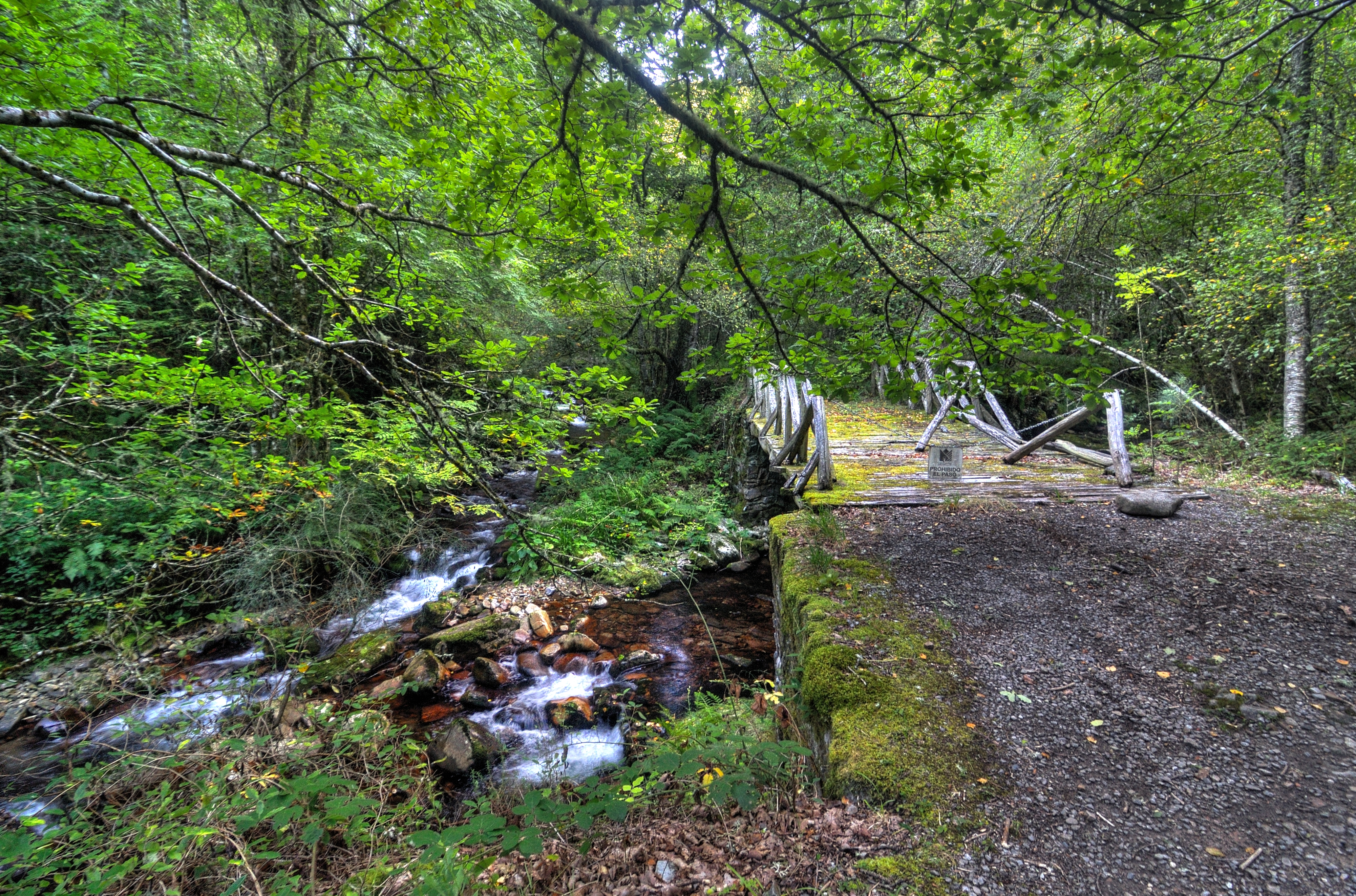 Biosphere reserve of Muniellos, in Cangas del Narcea, in Asturias, Spain.